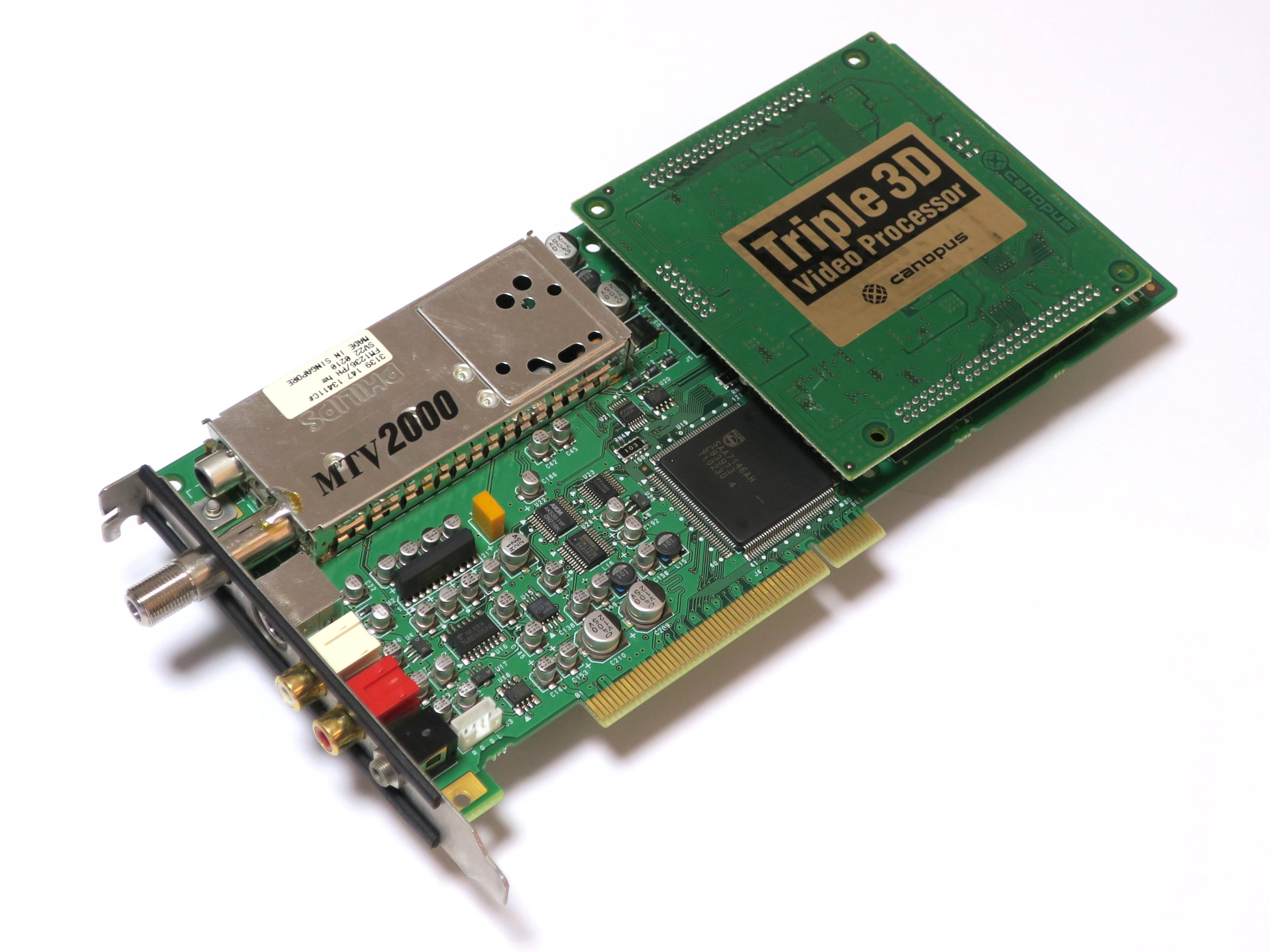 Canopus (Grass Valley) television tuner card MTV2000.